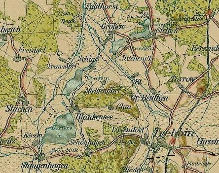 Historical Pharus-Map from 1903 (part). Village Mietgendorf, part of the town Ludwigsfelde in the district Teltow-Fläming, state Brandenburg.